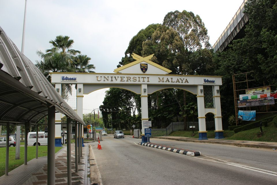 Universiti Malaya